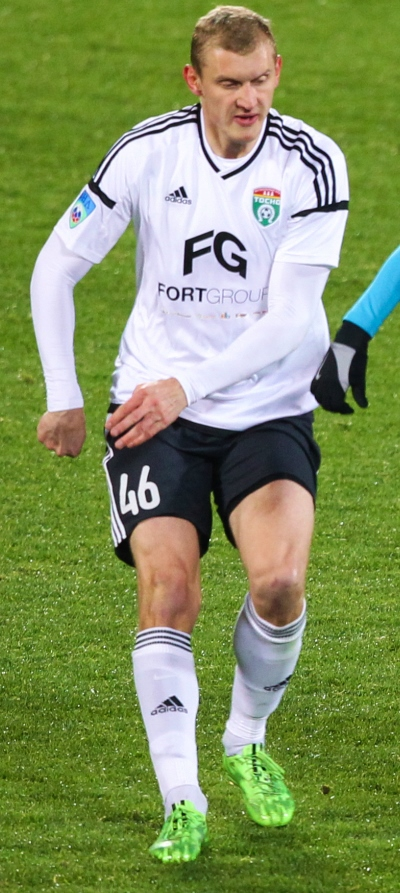 Dzyanis Laptsew